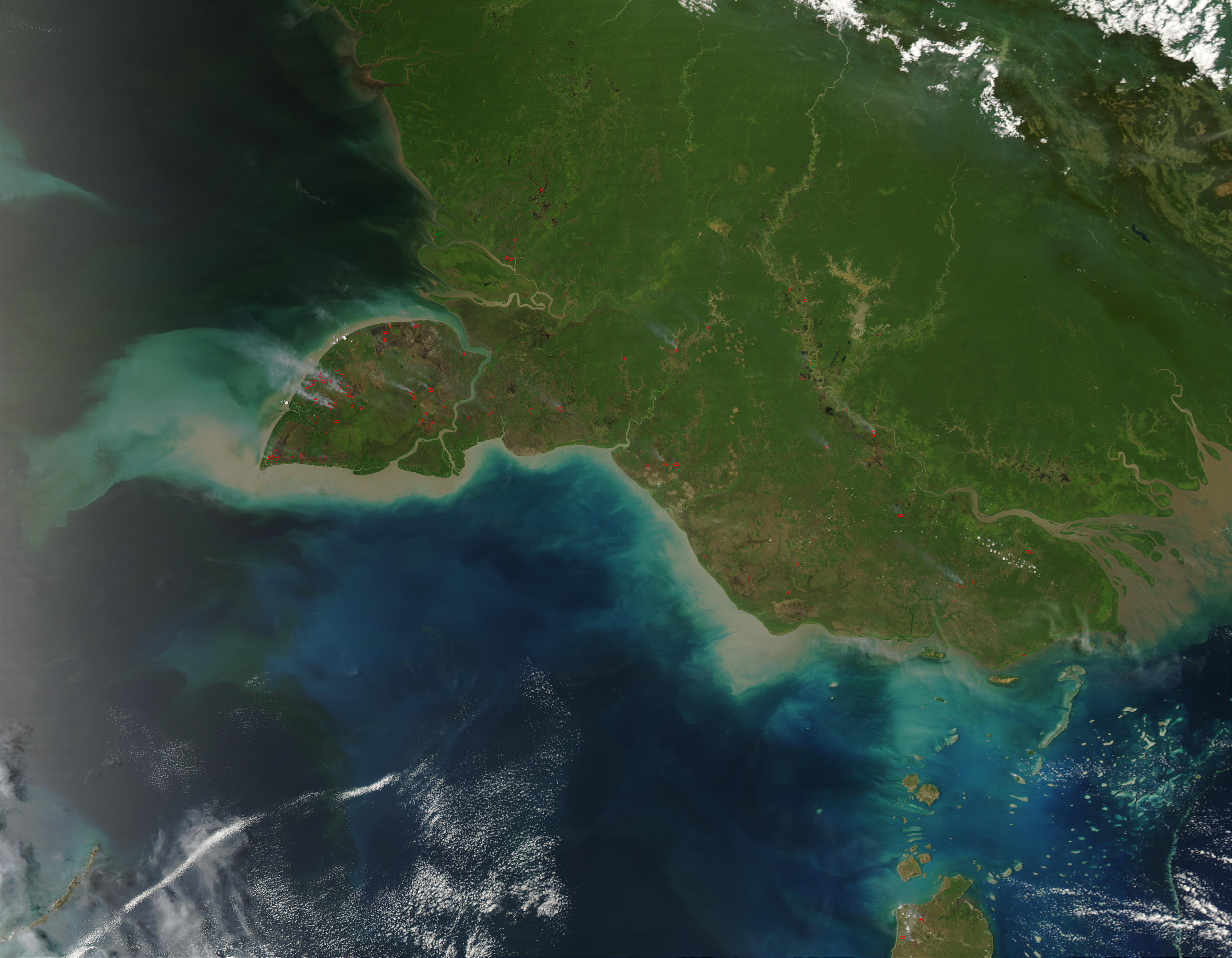 Fires on the island of New Guinea are burning mostly in the Pulau Dolak peninsula, though a number of them scattered throughout the mainland. Pulau Dolak is separated from the mainland of Indonesian New Guinea by the Muli (northern) and Buaya (southern) Channels. Just north of the peninsula are the Obais (top) and Digul Yodom (bottom) Rivers. Five fires lie just north of the Obais River. Farther east, the Fly River flows into the Gulf of Papua. Visible to the north is the Victor Emanuel Range (top right corner), bordered by low clouds on the northern and southern edges.